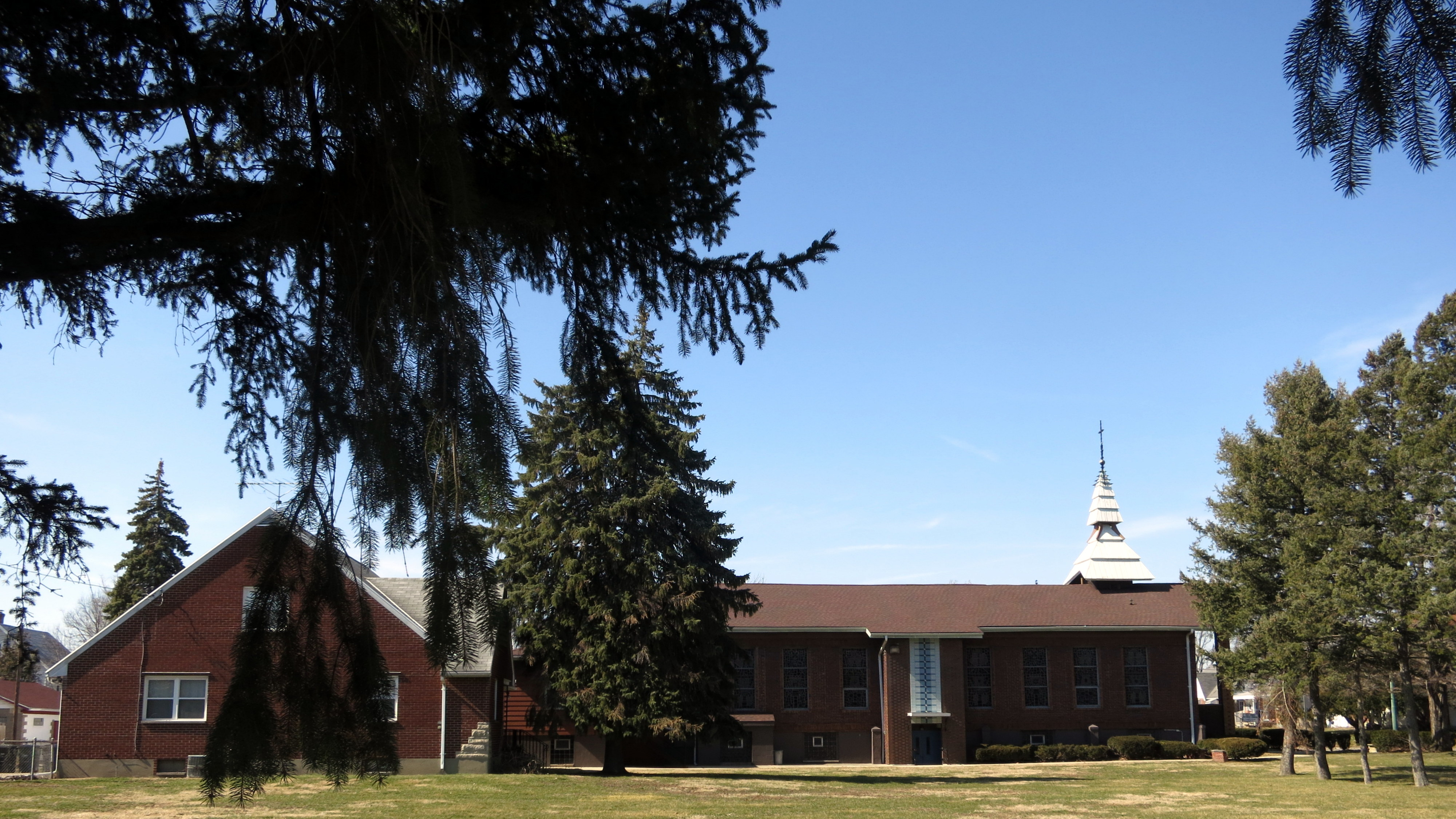 Holy Cross Roman Catholic Church (Dayton, Ohio) - side view